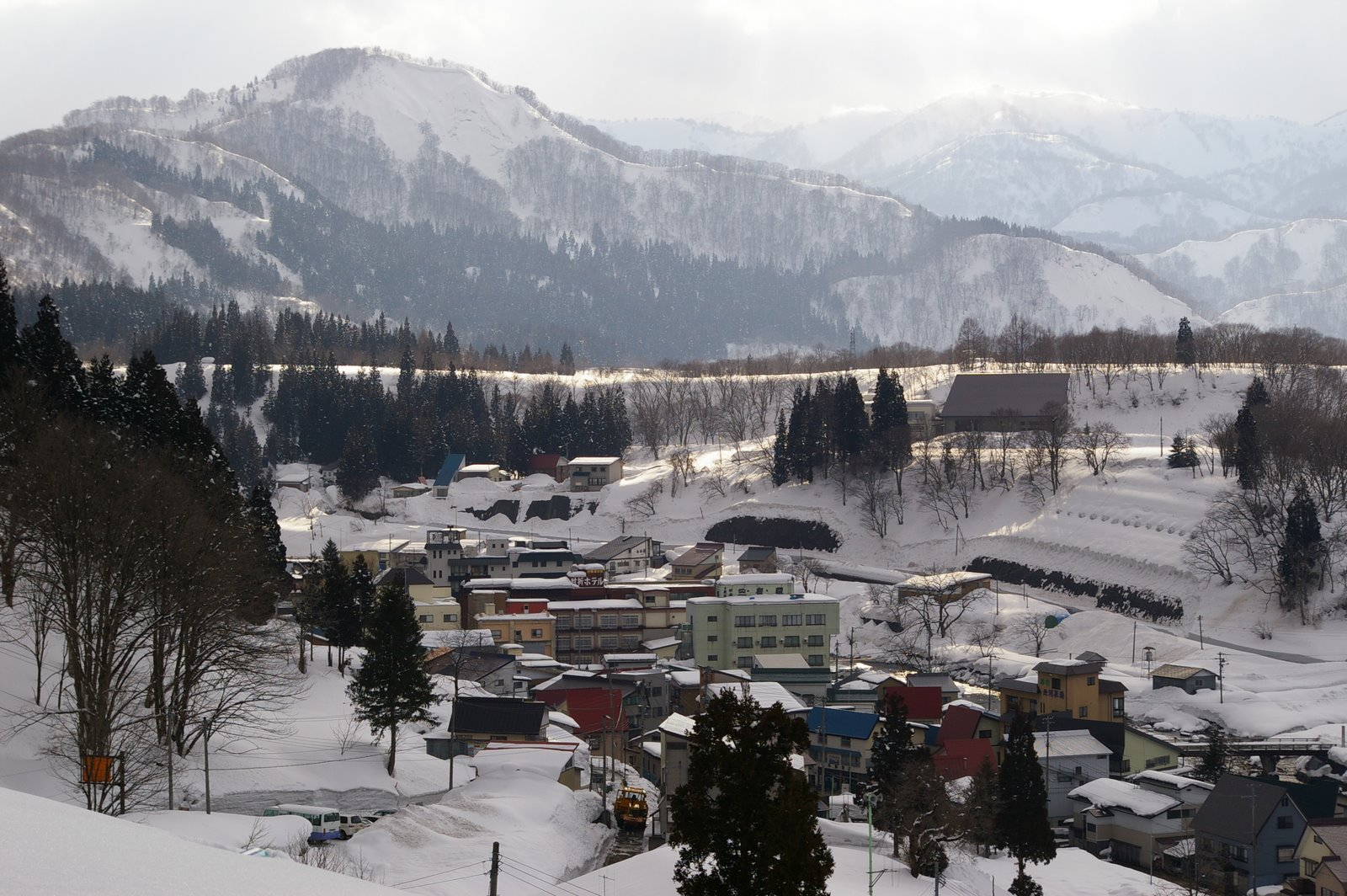 Hijiori Onsen in Okura, Yamagata, Japan.